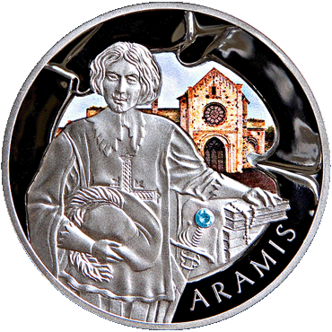 Belarus and the global community. Commemorative coins "Aramis"